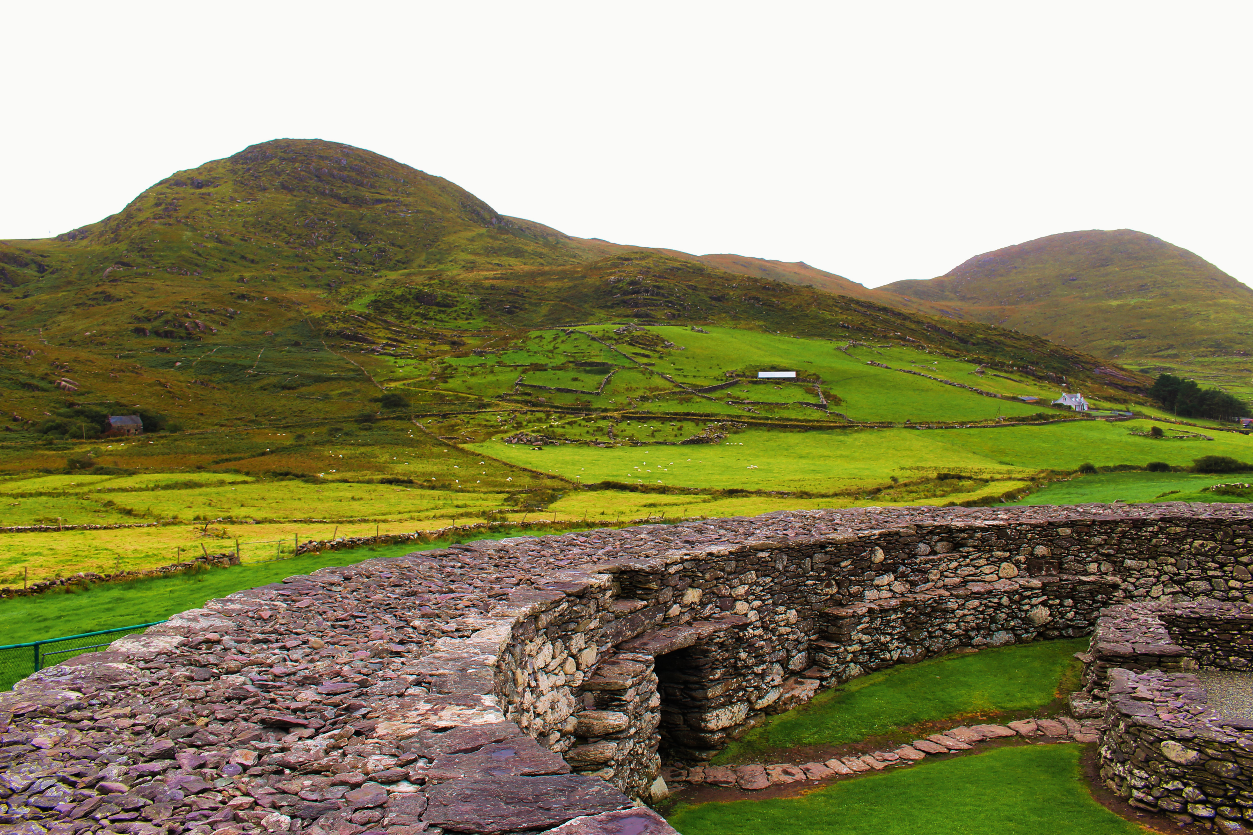 Loher Cashel with mountain view.